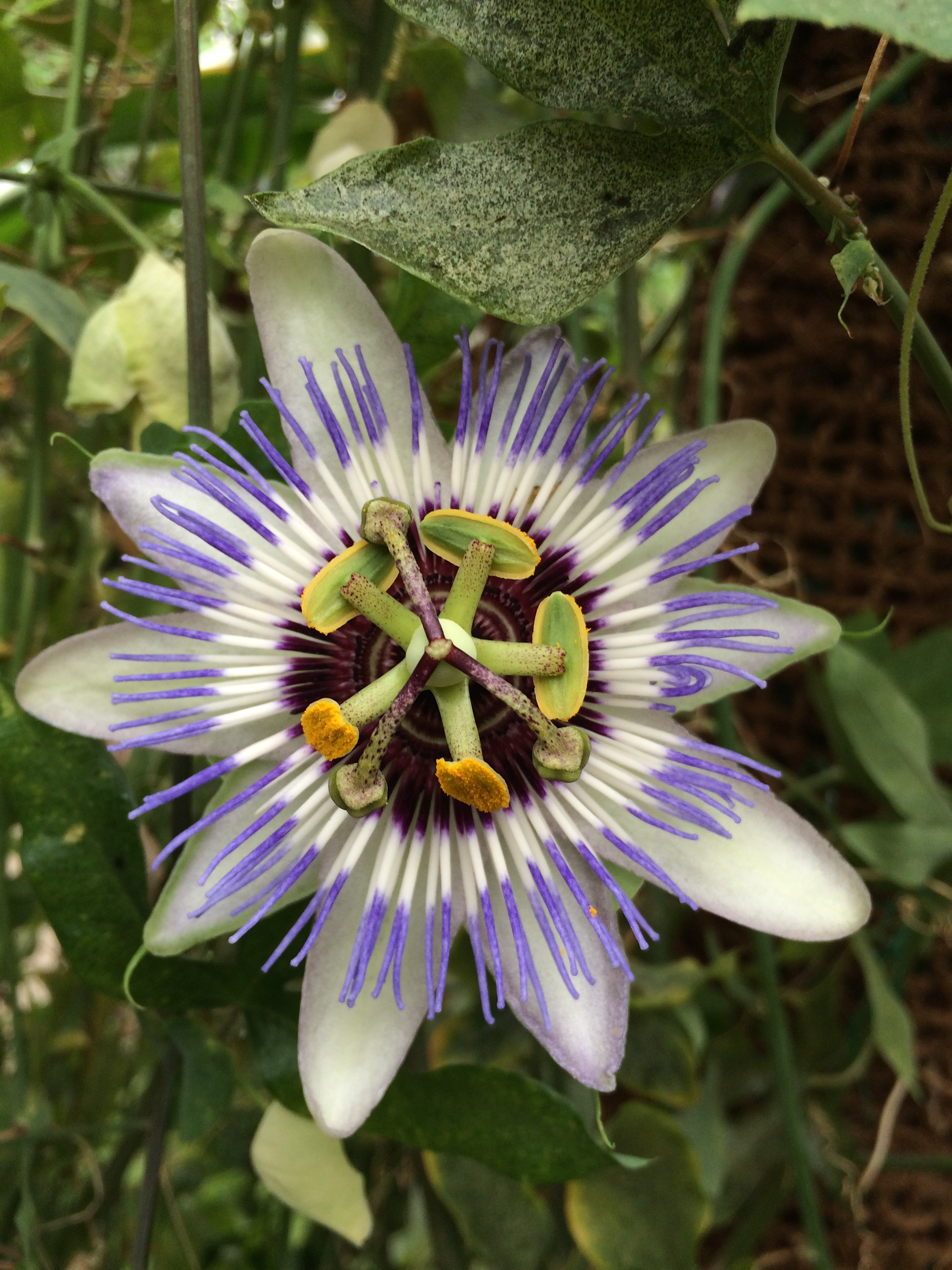 Flower passion fruit